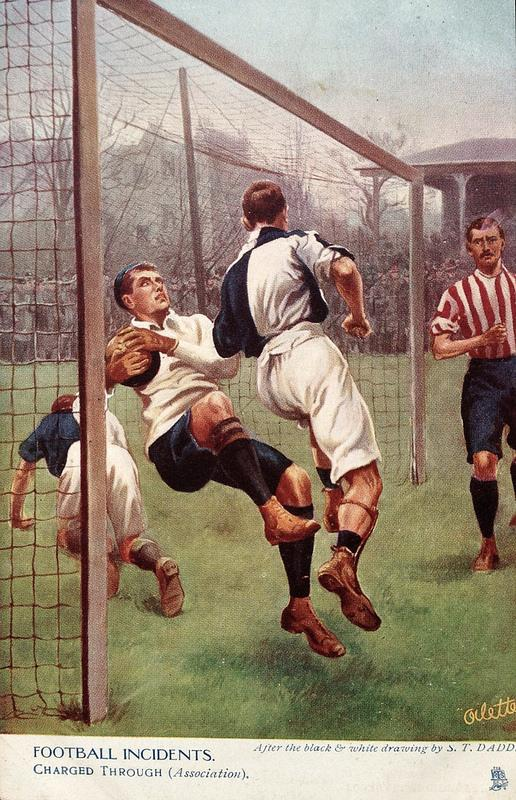 An association football illustration, part of the "Football Incidents" series.